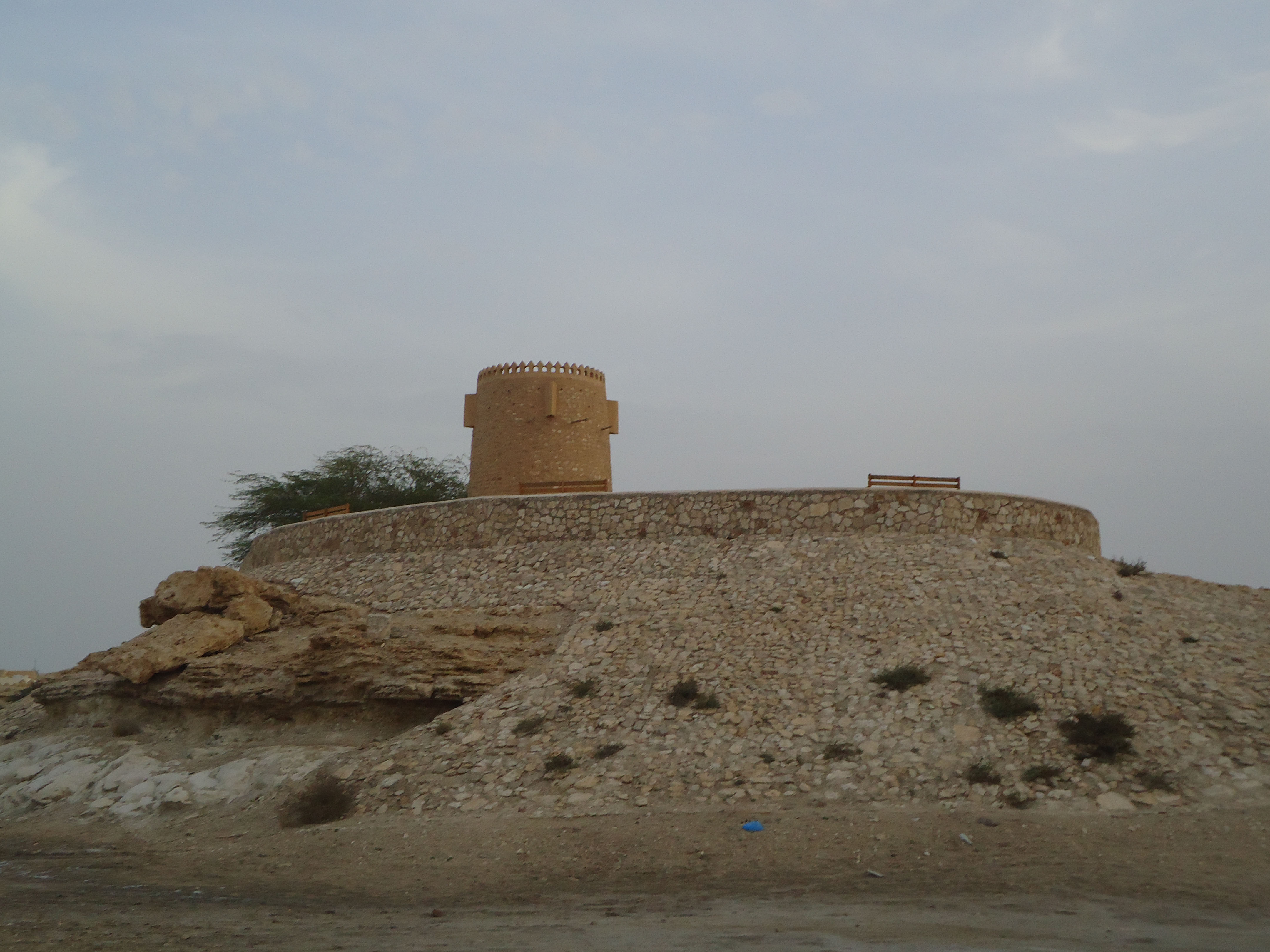 Al Khor Archaeological Tower, a far view